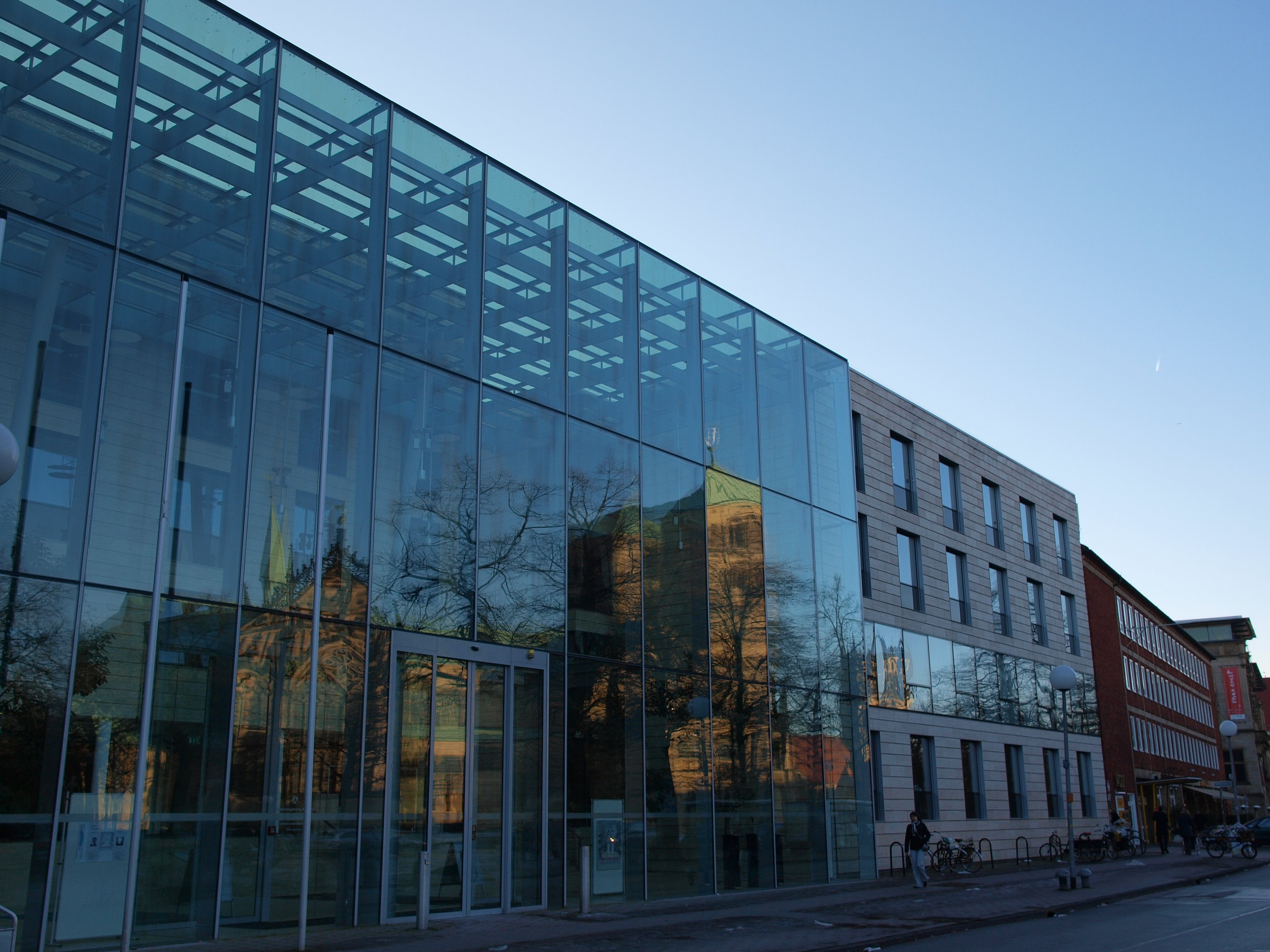 Main building of Bezirksregierung Münster (regional government Münster)